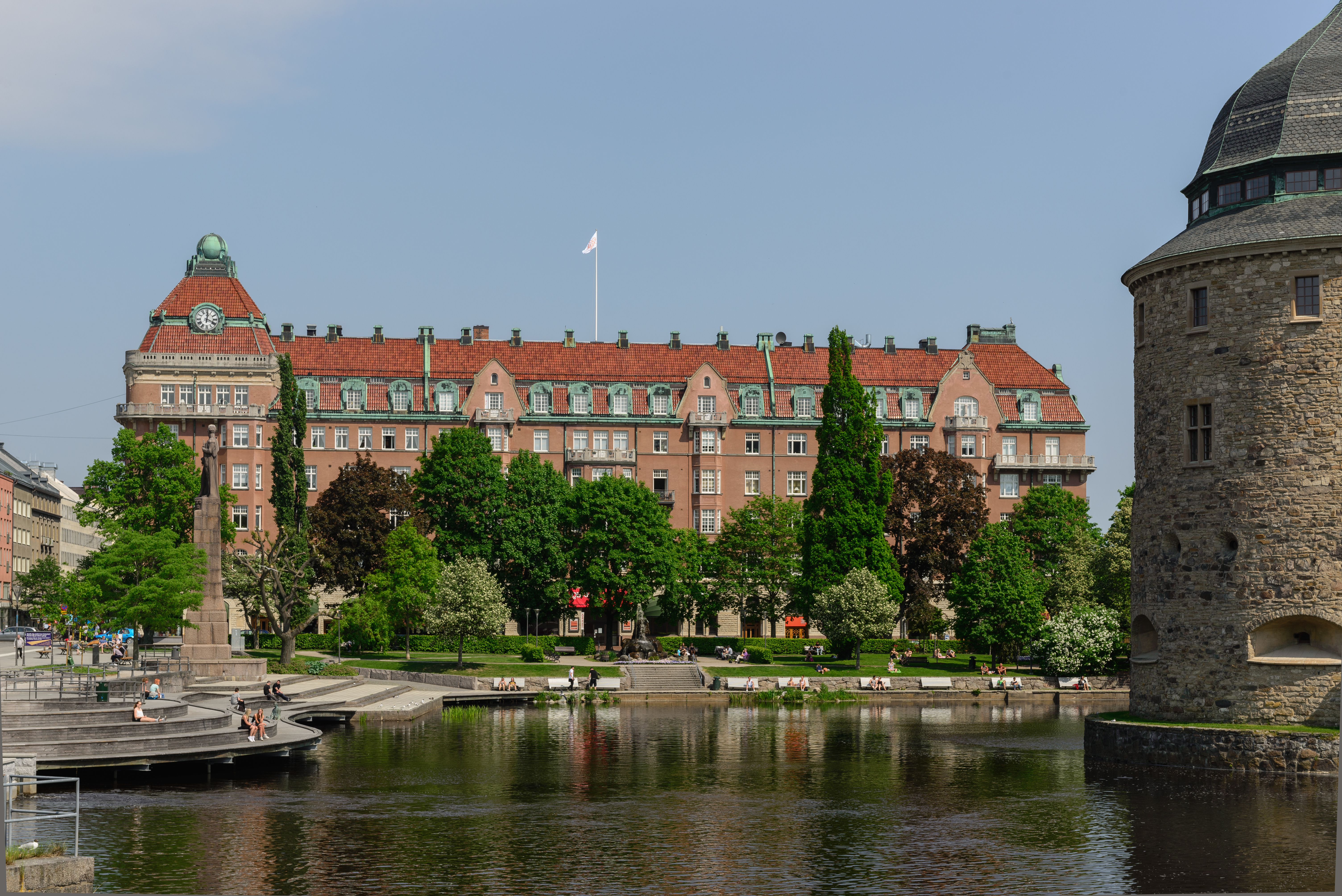 Centralpalatset (The Central palace), Örebro (Sweden). built 1912-13. To the right, Örebro castle.